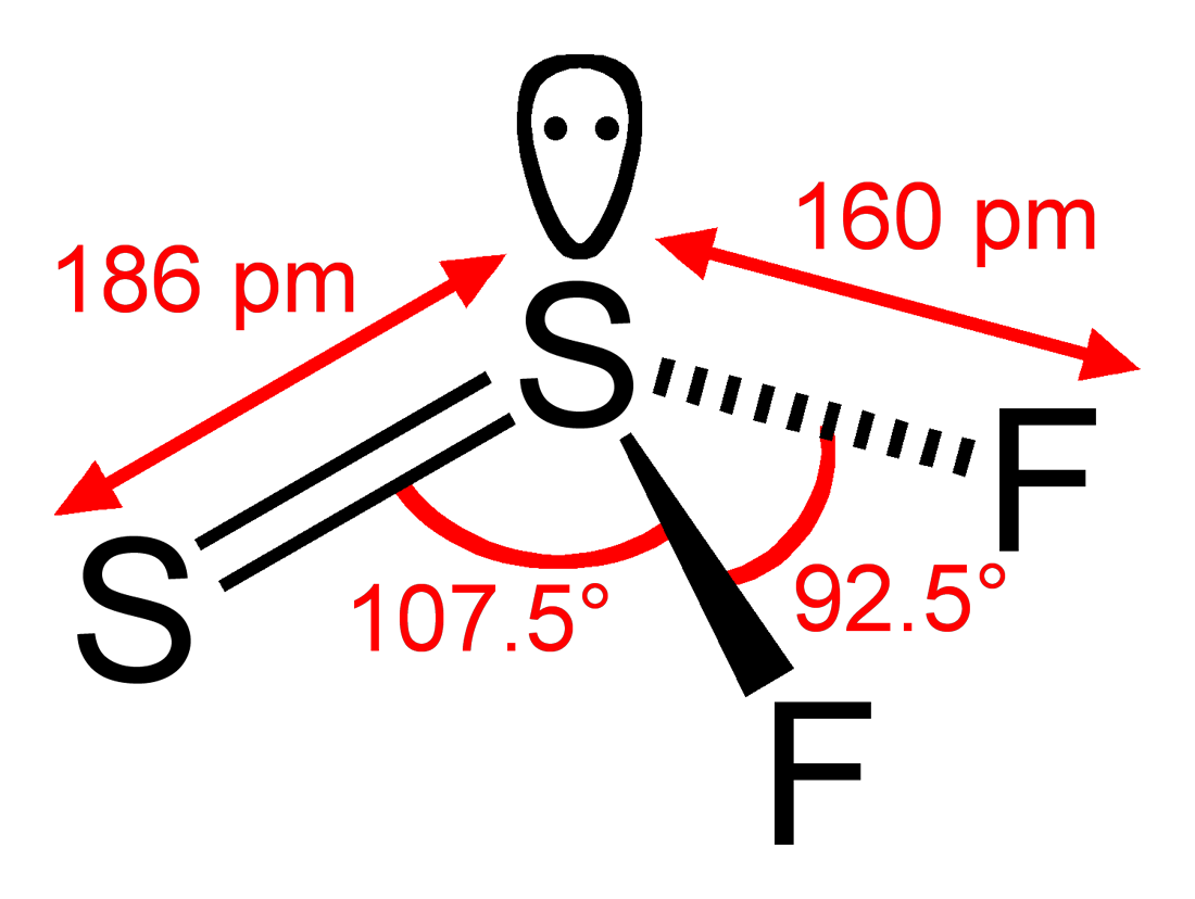 Structure and dimensions of the thiothionyl fluoride molecule, F2S=S. Bond lengths and angles from Greenwood, N. N.; Earnshaw, A. (1997) Chemistry of the Elements (2nd ed.), Oxford:Butterworth-Heinemann ISBN: 0-7506-3365-4.